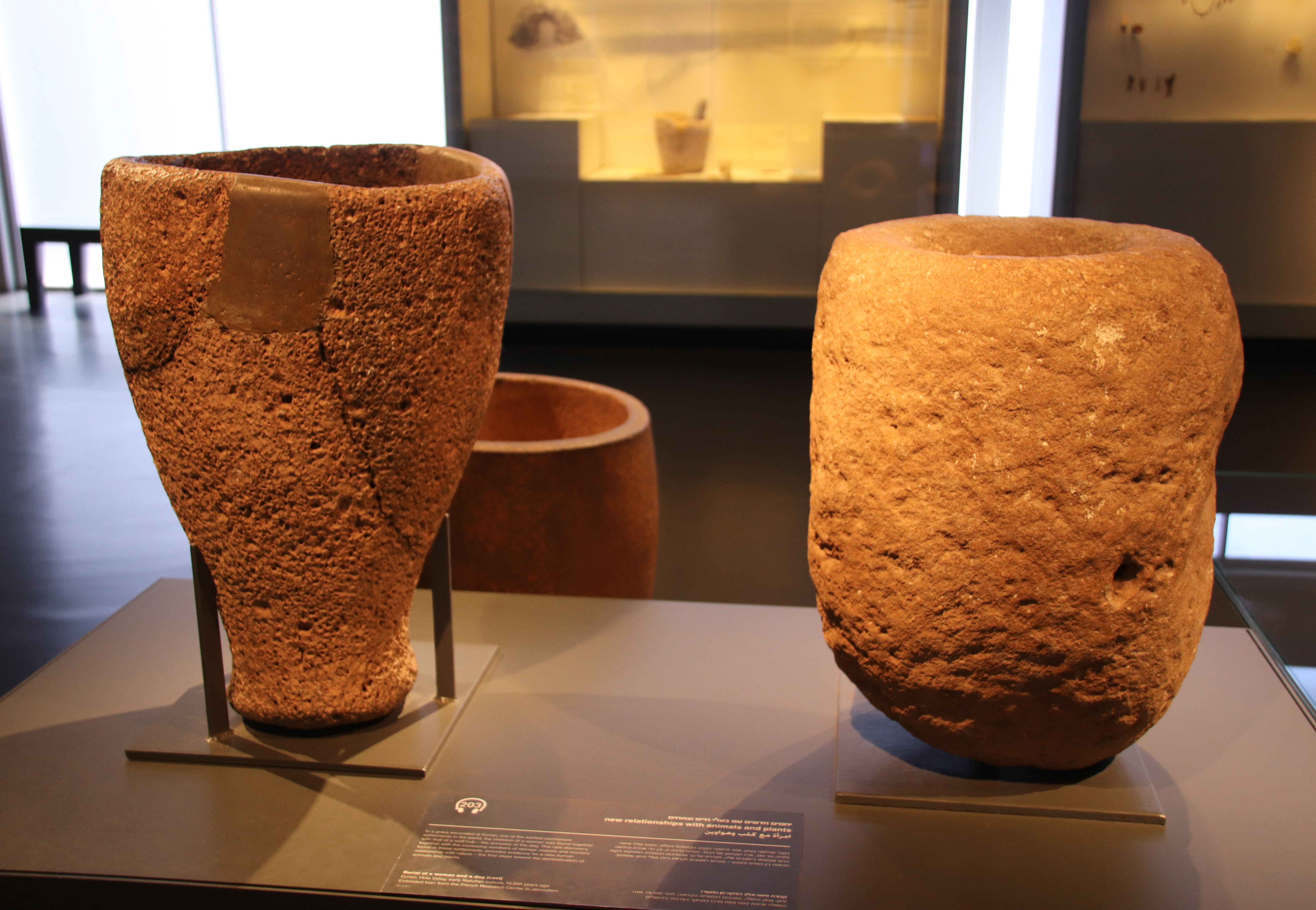 Limestone & Basalt Mortars Early Natufian circa 12000 BC Israel Museum, Jerusalem, Israel. Complete indexed photo collection at .